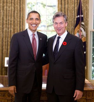 US President Barack Obama at the White House with Canadian Ambassador Gary Doer during the credentials ceremony for newly appointed ambassadors to the United States.